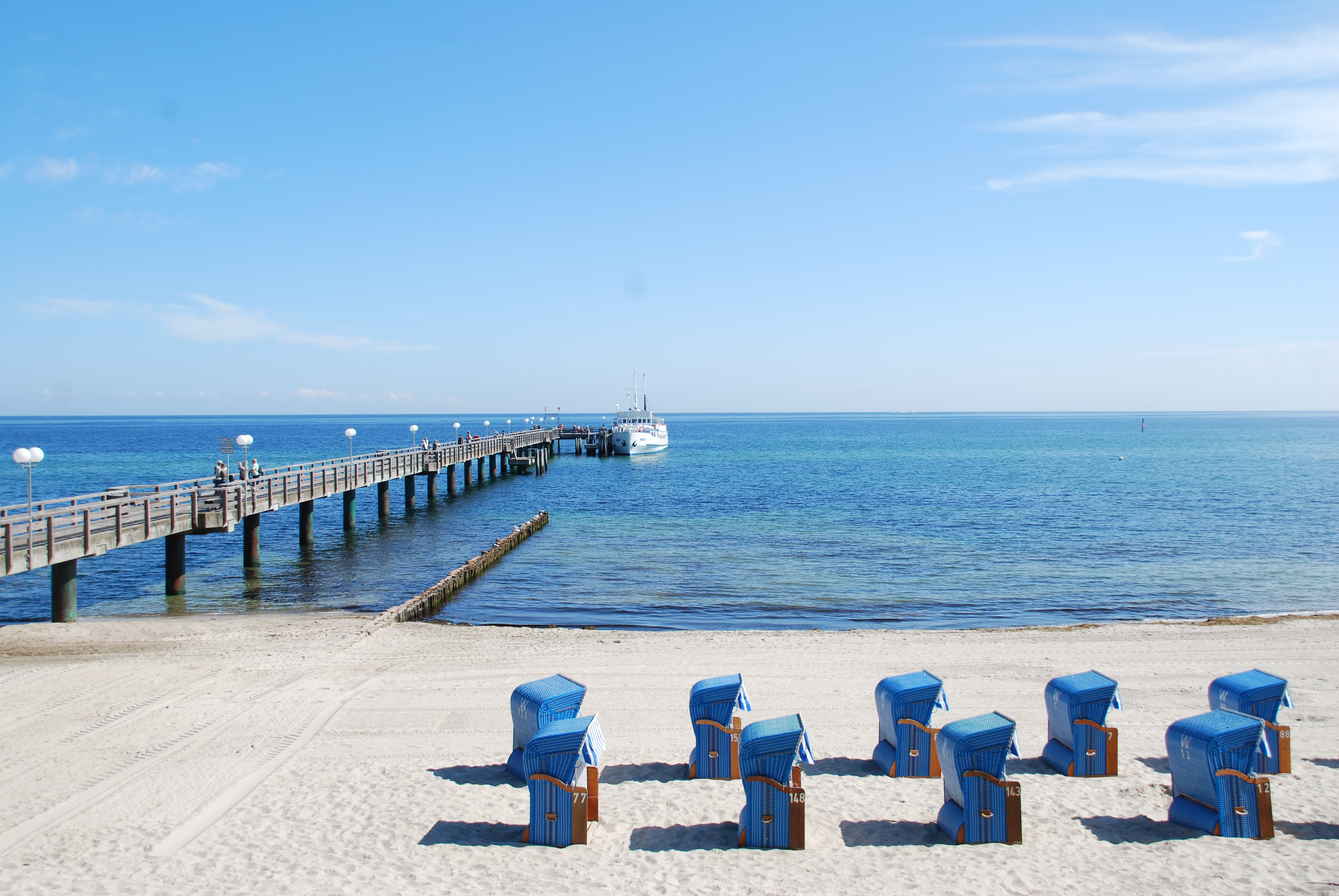 Kühlungsborn, Mecklenburg, Germany. Beach of the Baltic Sea.